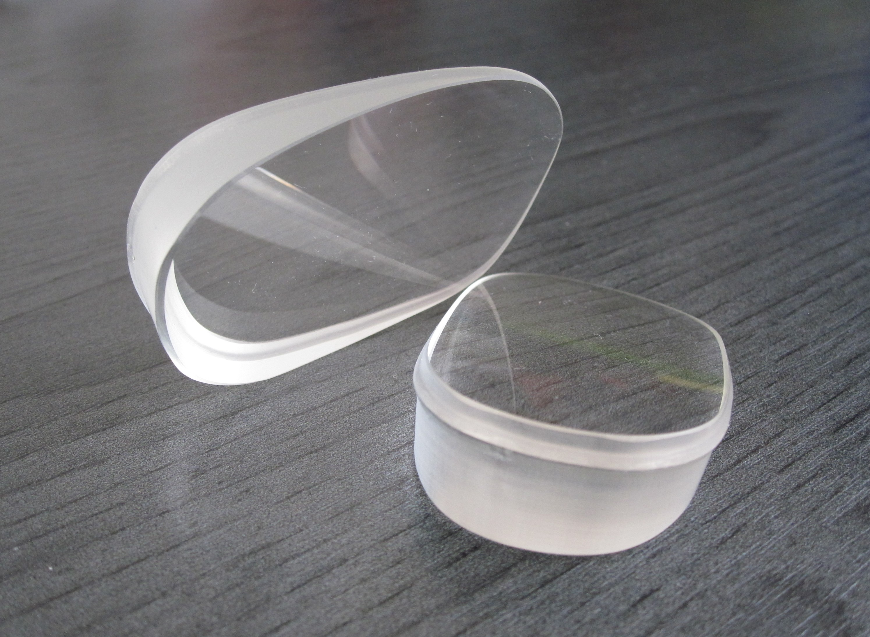 Glasses